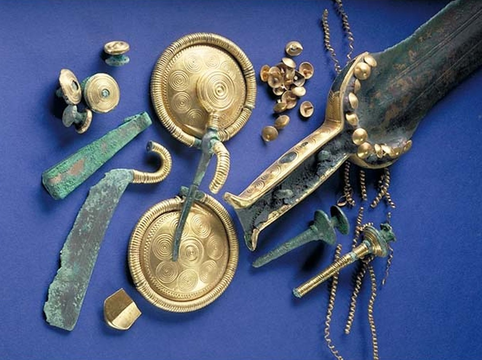 Grave goods from Hågahögen grave mound, fron Statens Historiska Museet